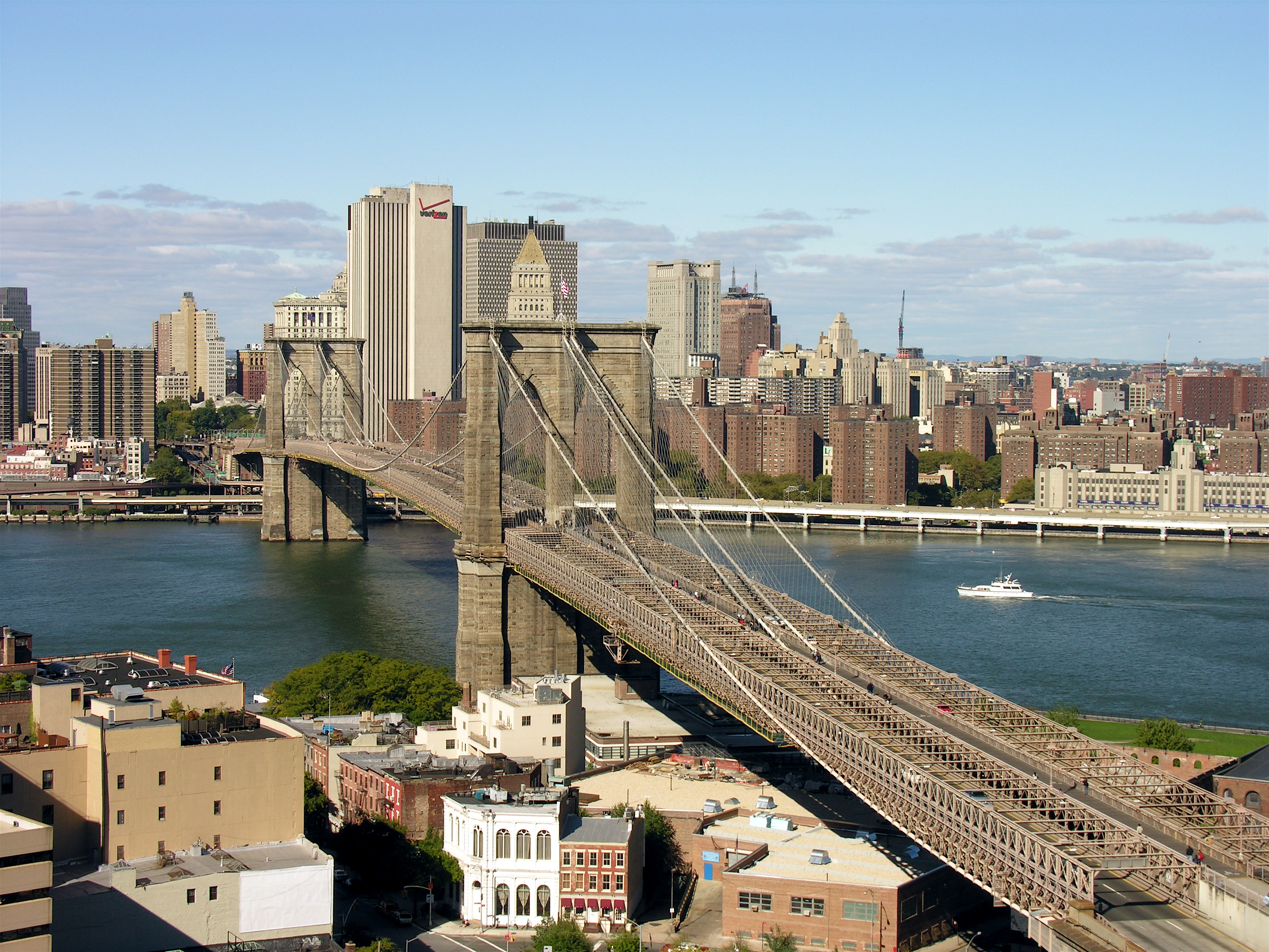 This is a view of the Brooklyn Bridge from the 21st floor of 140 Cadmen Plaza West.